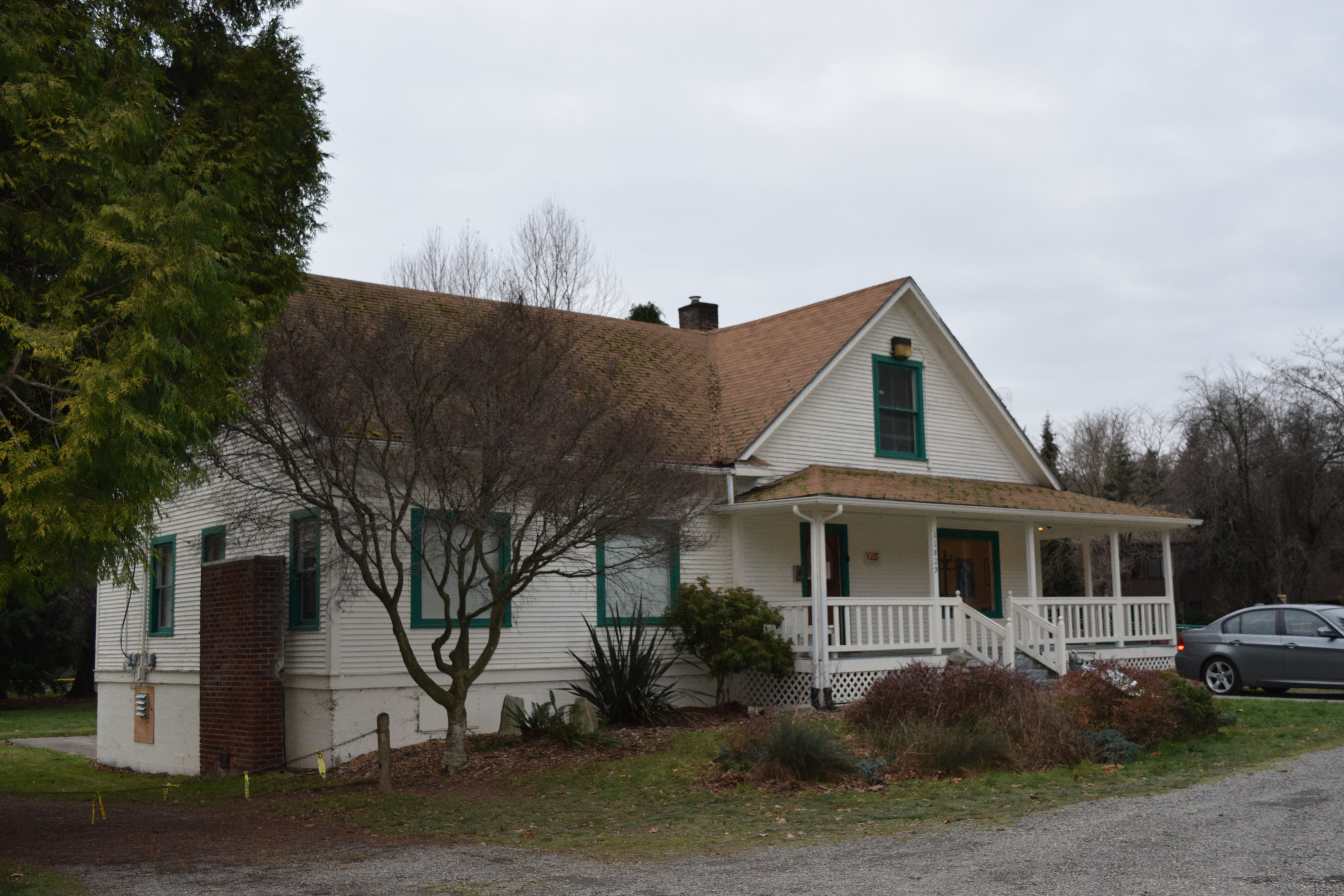 The historic Forbes House at 11829 97th Ave NE, in Juanita Beach Park in Kirkland, Washington